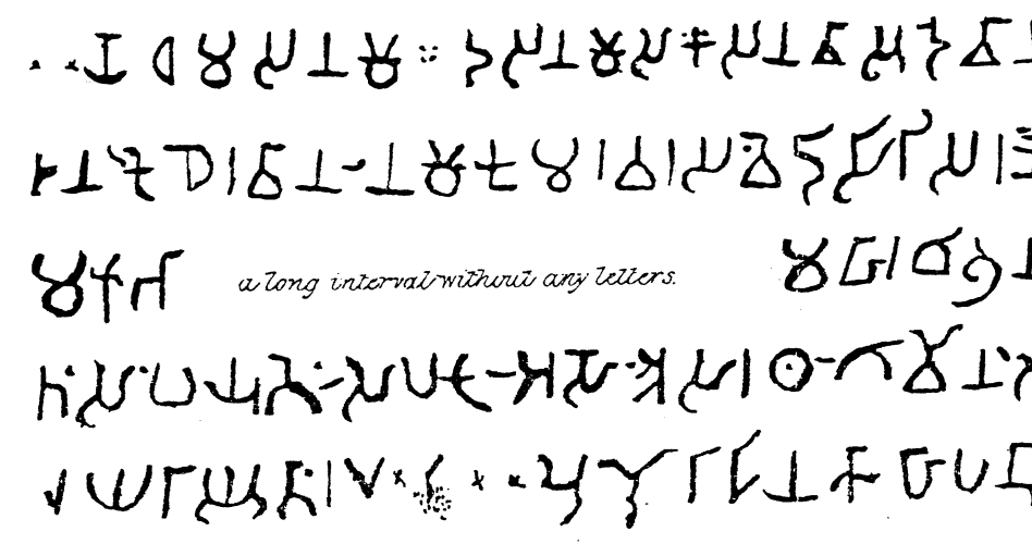 The Naneghat Sanskrit inscriptions were eye-copied by Sykes in 1833 and published in 1837. These Brahmi script inscriptions are found in a cave the Western Ghats, Maharashtra. Sykes guessed in 1837 these were Buddhist inscriptions. The first translation was published by Georg Buhler which showed that these were Hindu inscriptions. This is a 2D-Art photograph (partial) of an image in the following publication published more than 100 years ago: Inscriptions from the Boodh Caves, near Joonur, John Malcolm and W. H. Sykes (1837), The Journal of the Royal Asiatic Society of Great Britain and Ireland, Vol. 4, No. 2, pp. 287-291